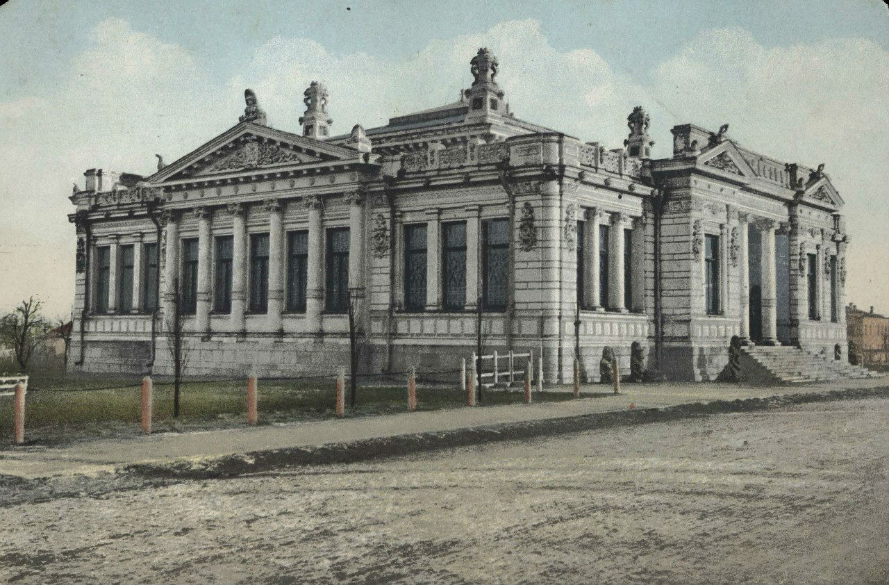 Фото начала 20 века.